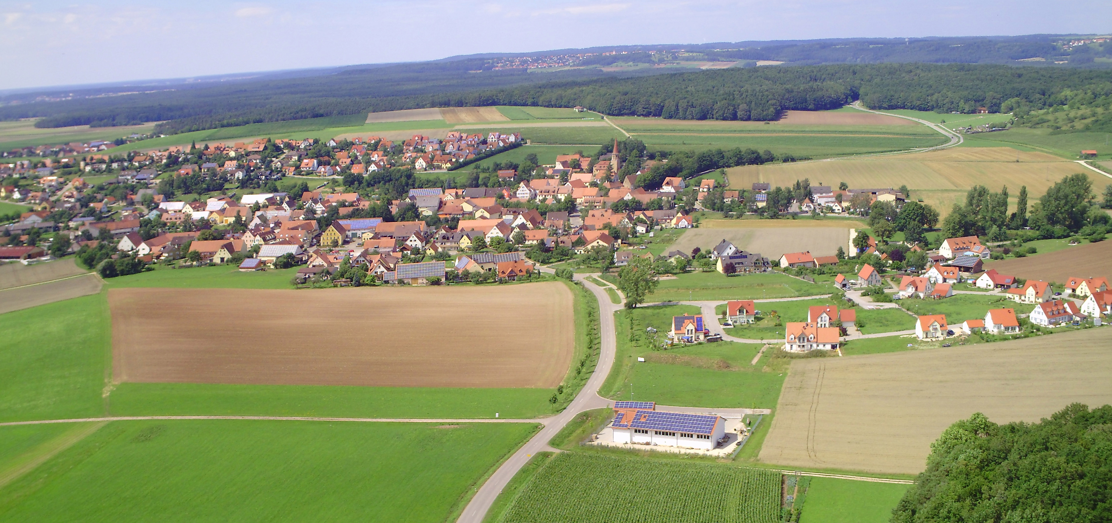 Pfofeld, Luftaufnahme, Panorama (2010)